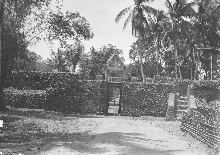 The kraton of Boeton